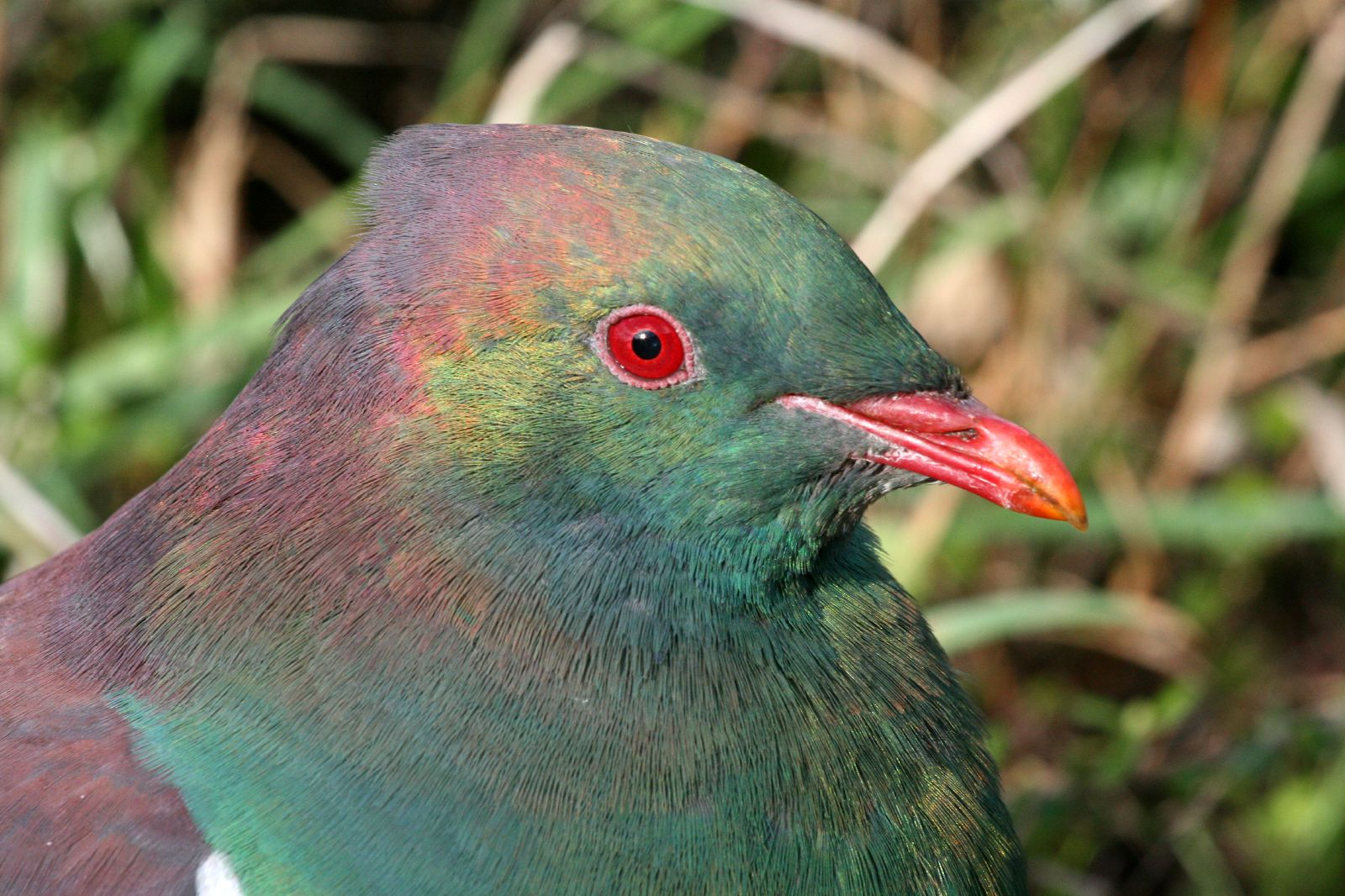 Kererū, (Hemiphaga novaeseelandiae), Original caption: “Kapiti Island, North Island, New Zealand” — flickr